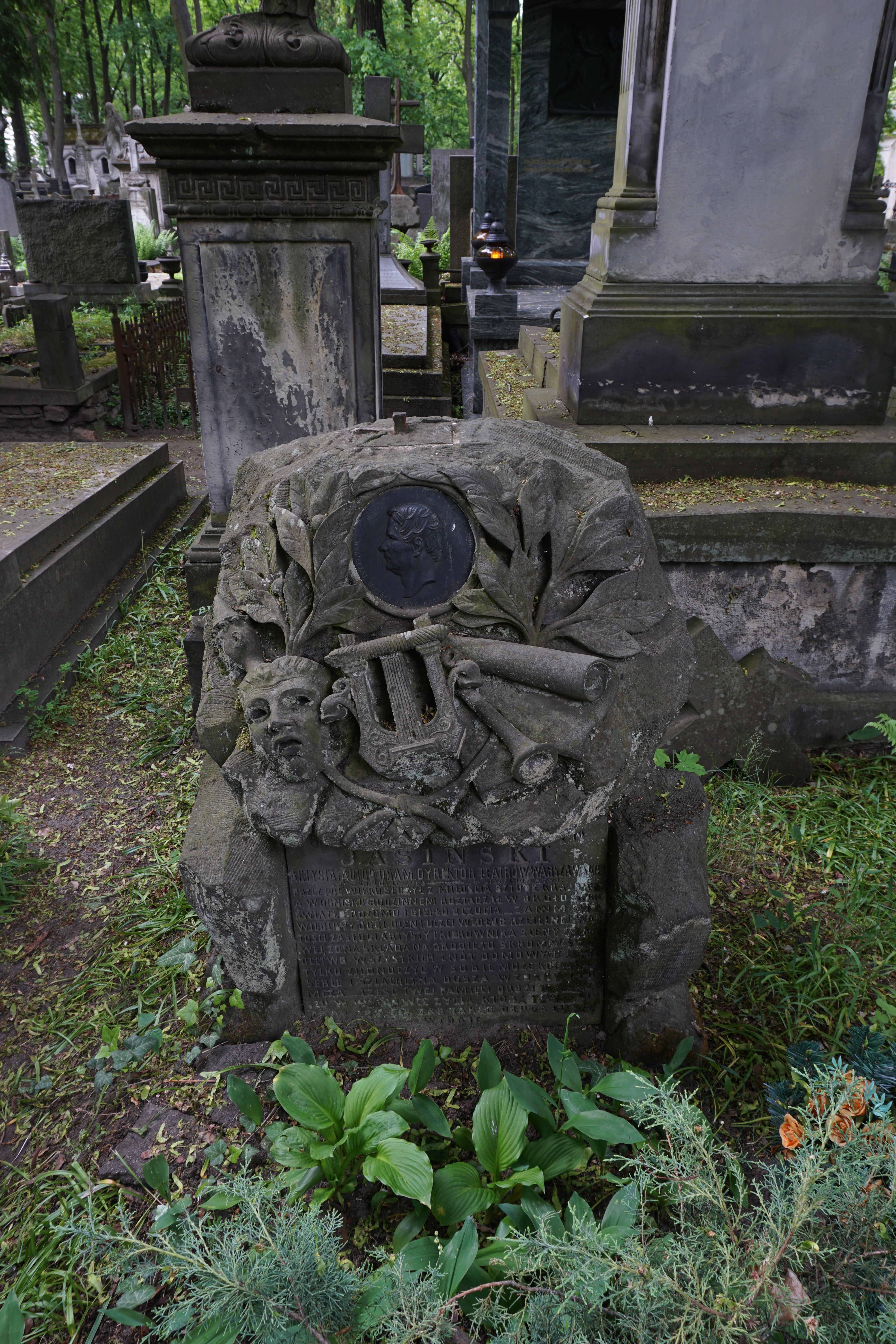 The grave of Jan Tomasz Seweryn Jasiński at the Powązki Cemetery (section 22, row 6, grave 14, 15)